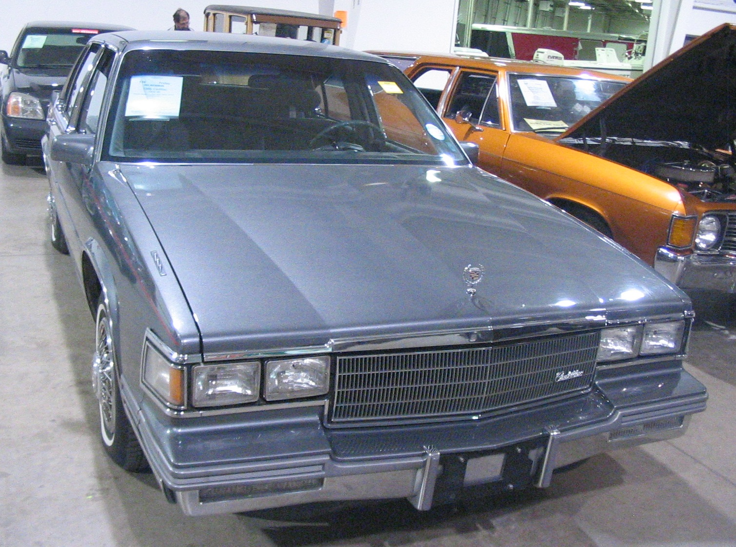 1986 Cadillac Fleetwood photographed in Mississauga, Ontario, Canada at the Toronto Classic Car Auction of spring 2012.